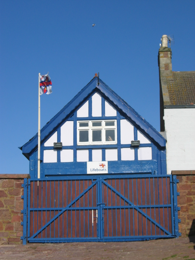 North Berwick Lifeboat shed, East Lothian, Scotland